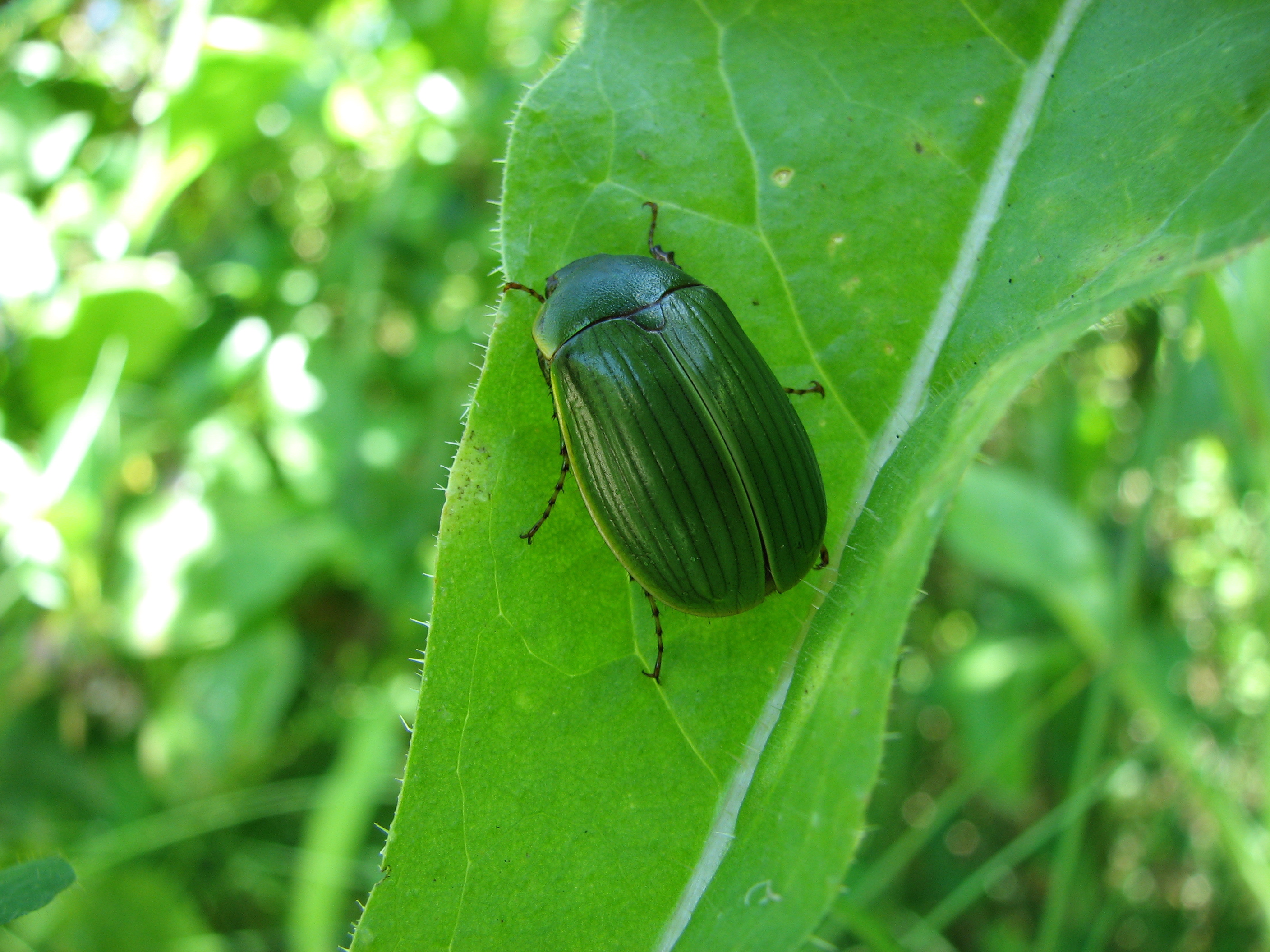 An green chafer beetle (either Stethaspis longicornis or S. suturalis) clambers over "ox -tongue" (Picris) a common weed along path edges in disturbed bush.